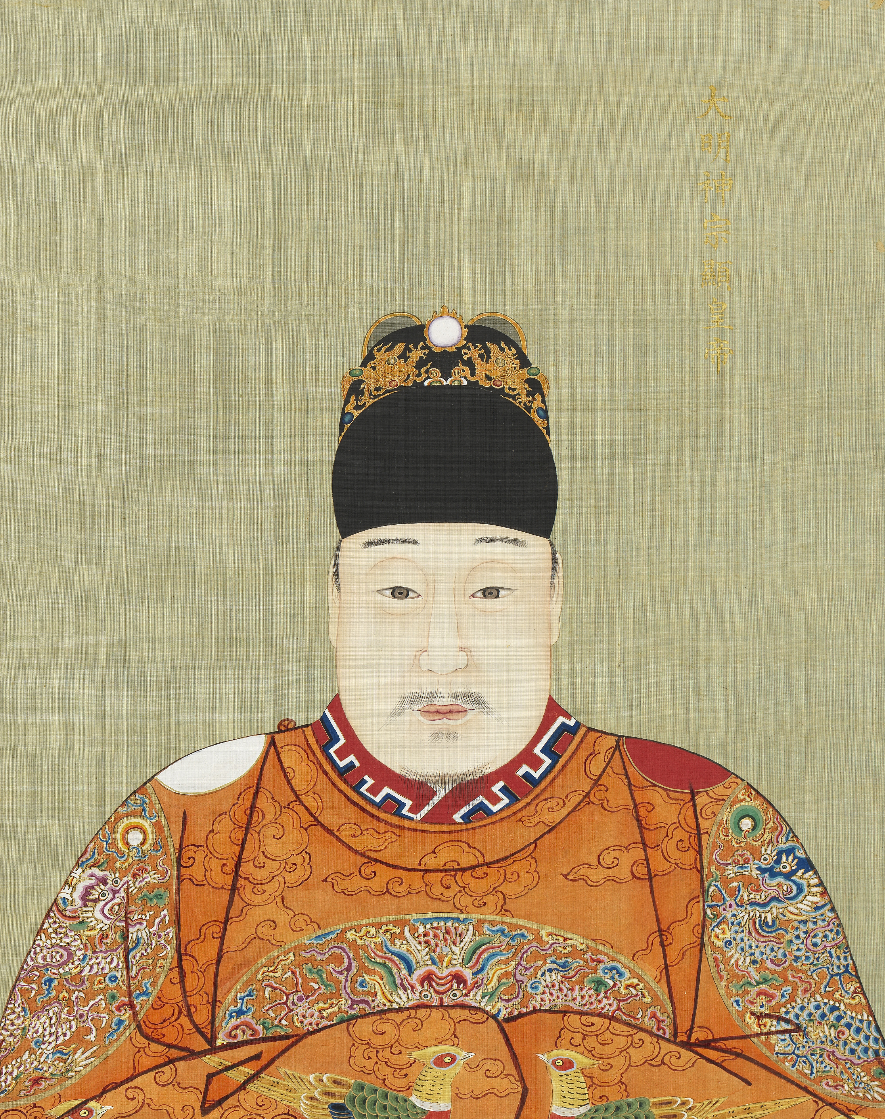 Ming Shenzong Emperor